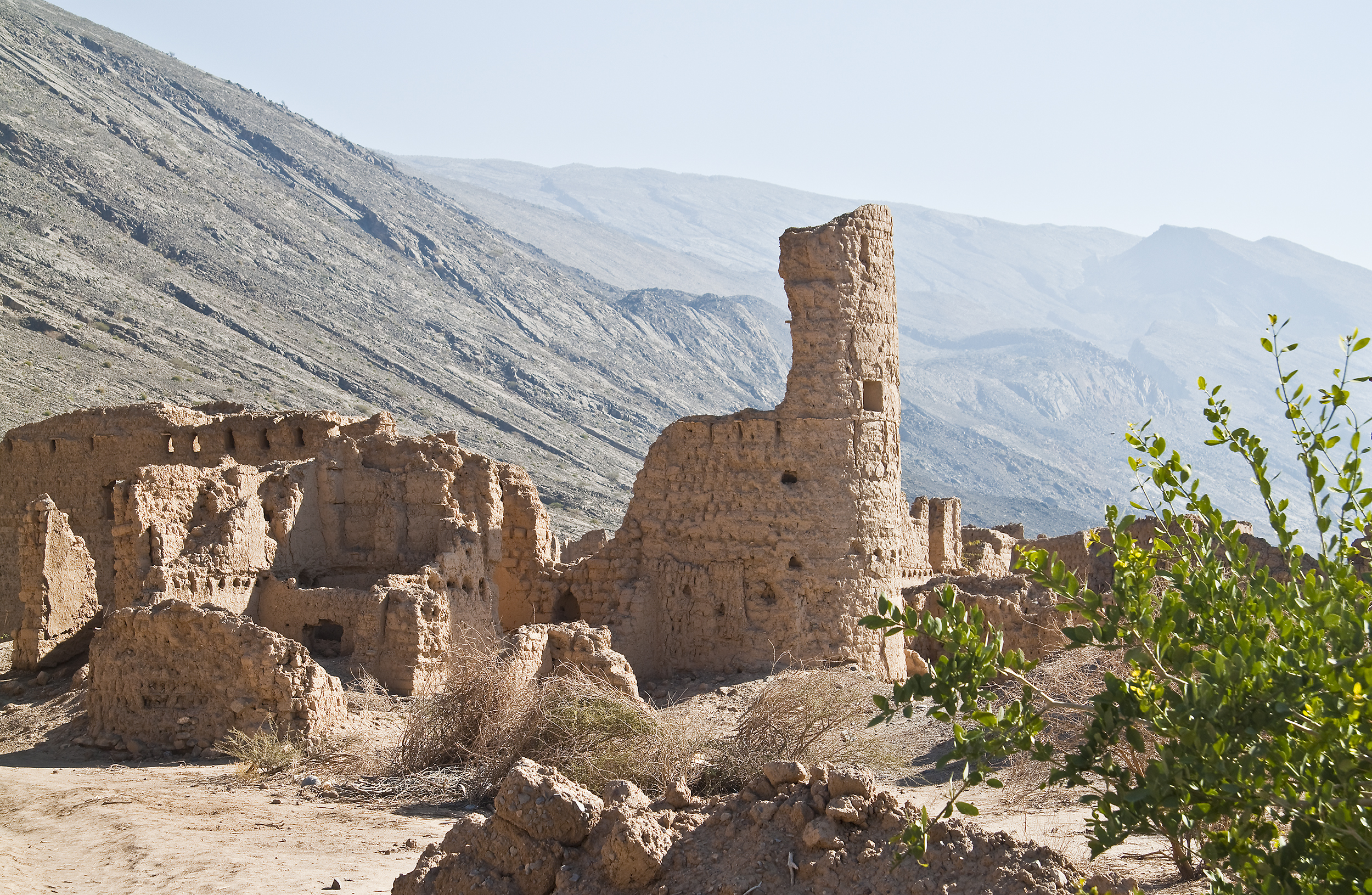 Ruins at the old Tanuf town (Oman)